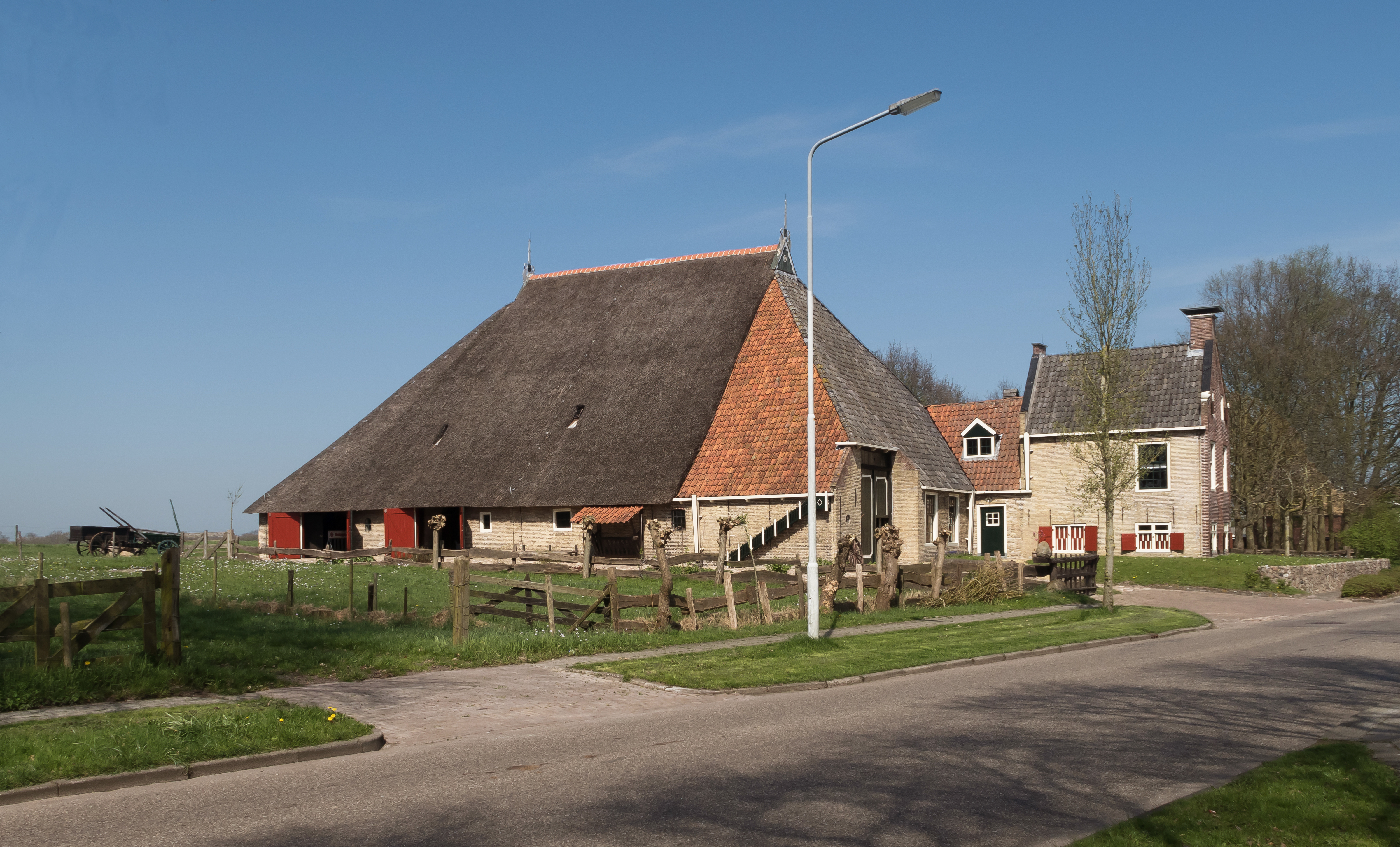 Sondel, farm house at the Jacobus Boomsmastraat